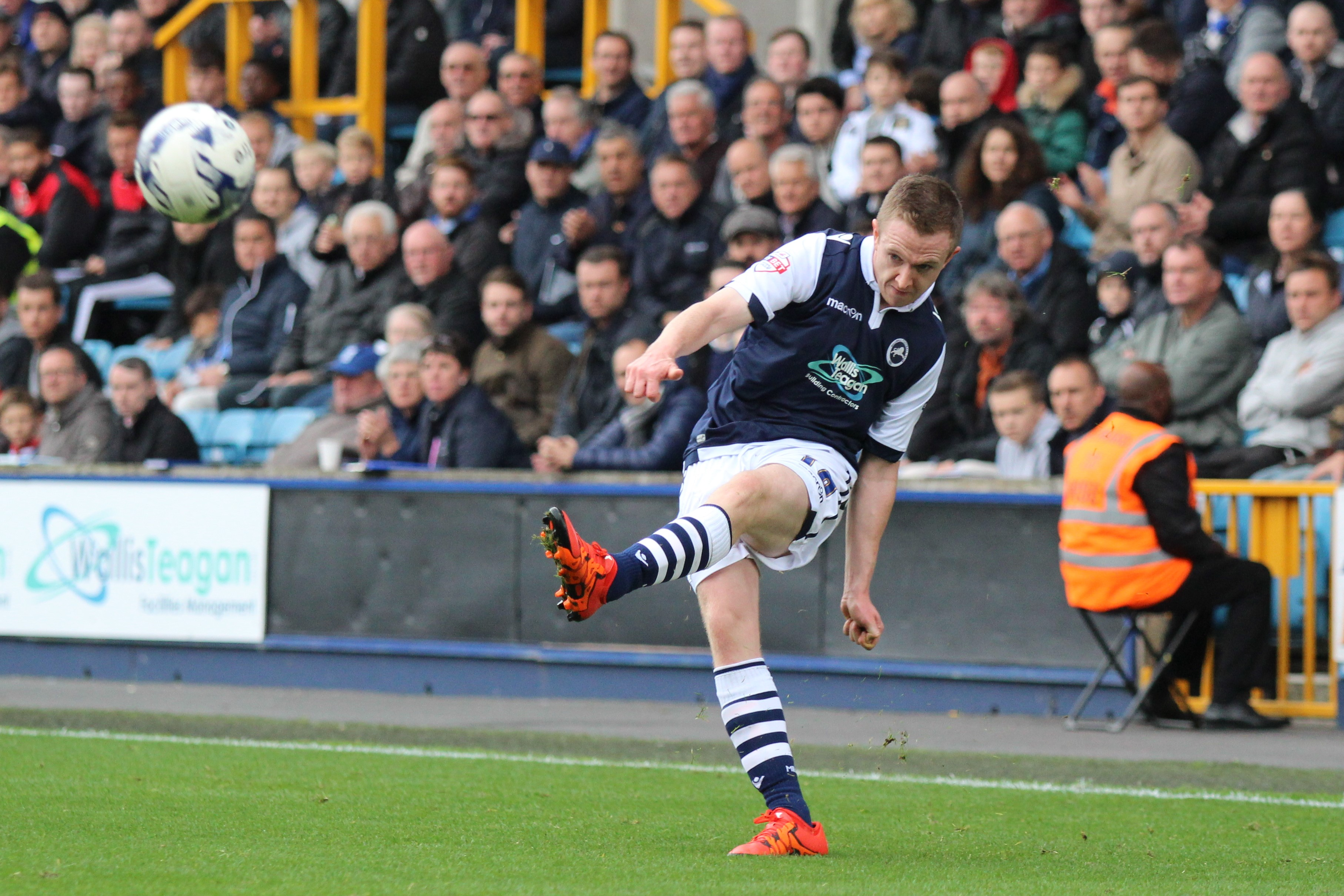 Shane Ferguson of Millwall crosses the ball during the game against Swindon Town.